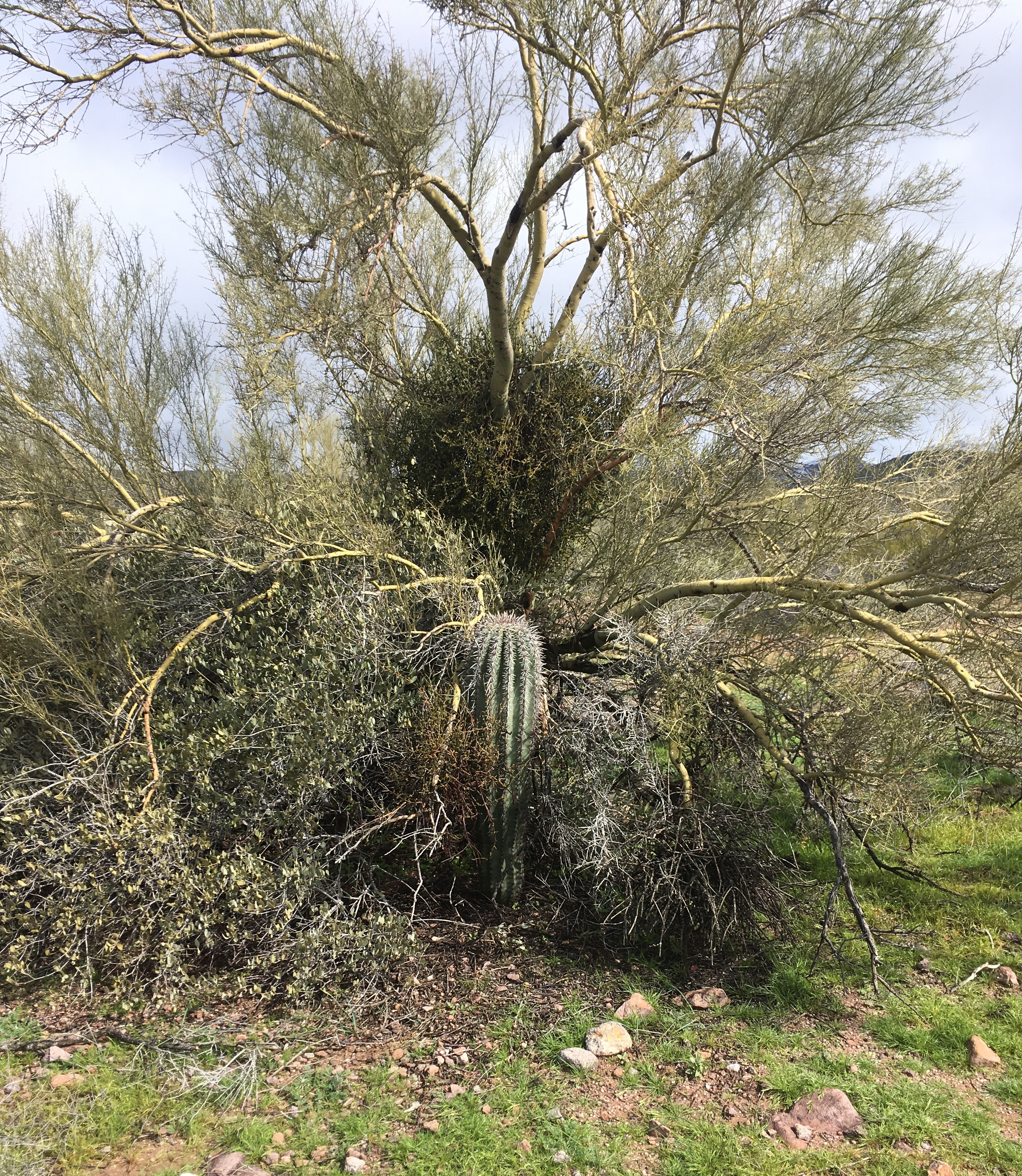 A paloverde tree being a nurse to a saguaro in the Sonoran Desert.